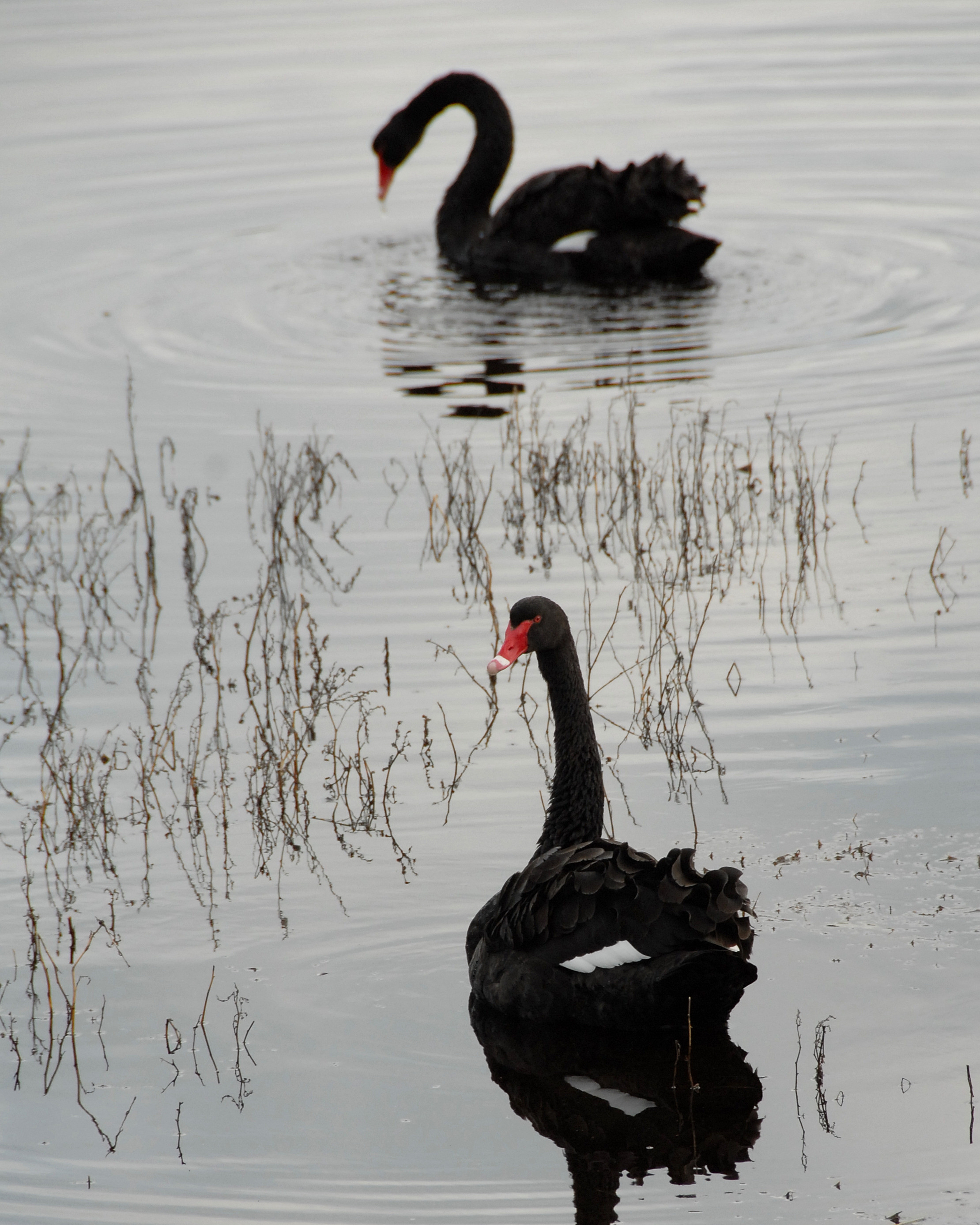 One pair (gender unknown!?) of Cygnus atratus, Black Swans, on Lake Claremont, Western Australia. Low light, early in the day, iconic shapes, silhouette, reflections.